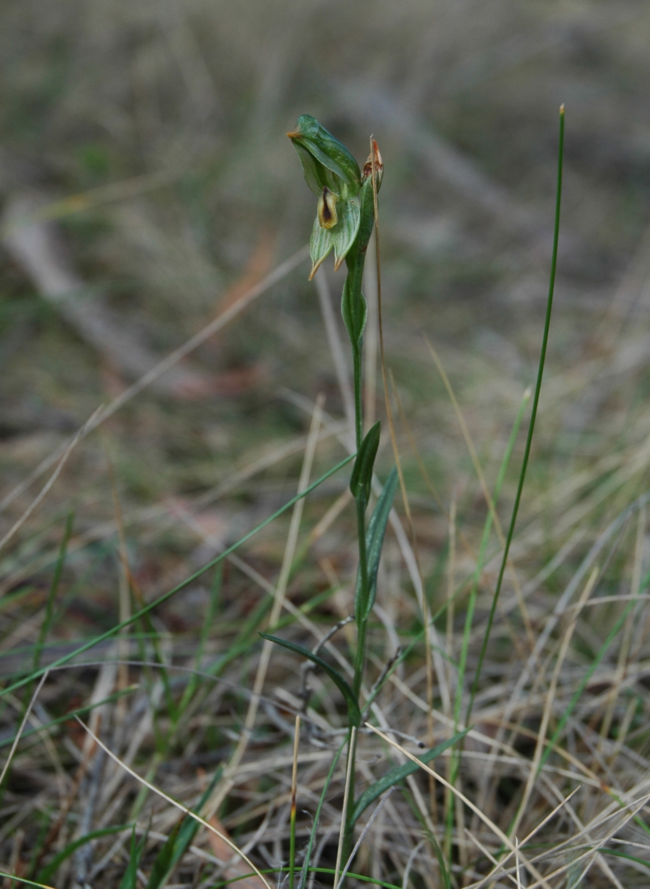 Black-stripped Greenhood orchid (Pterostylis melagramma). Tasmanian Southern midlands.